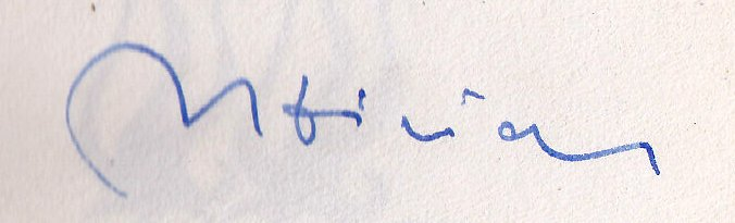 Josef Hiršal's signature